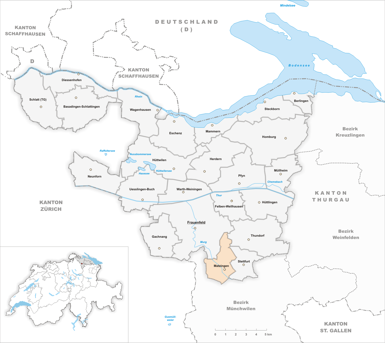 Municipality Matzingen